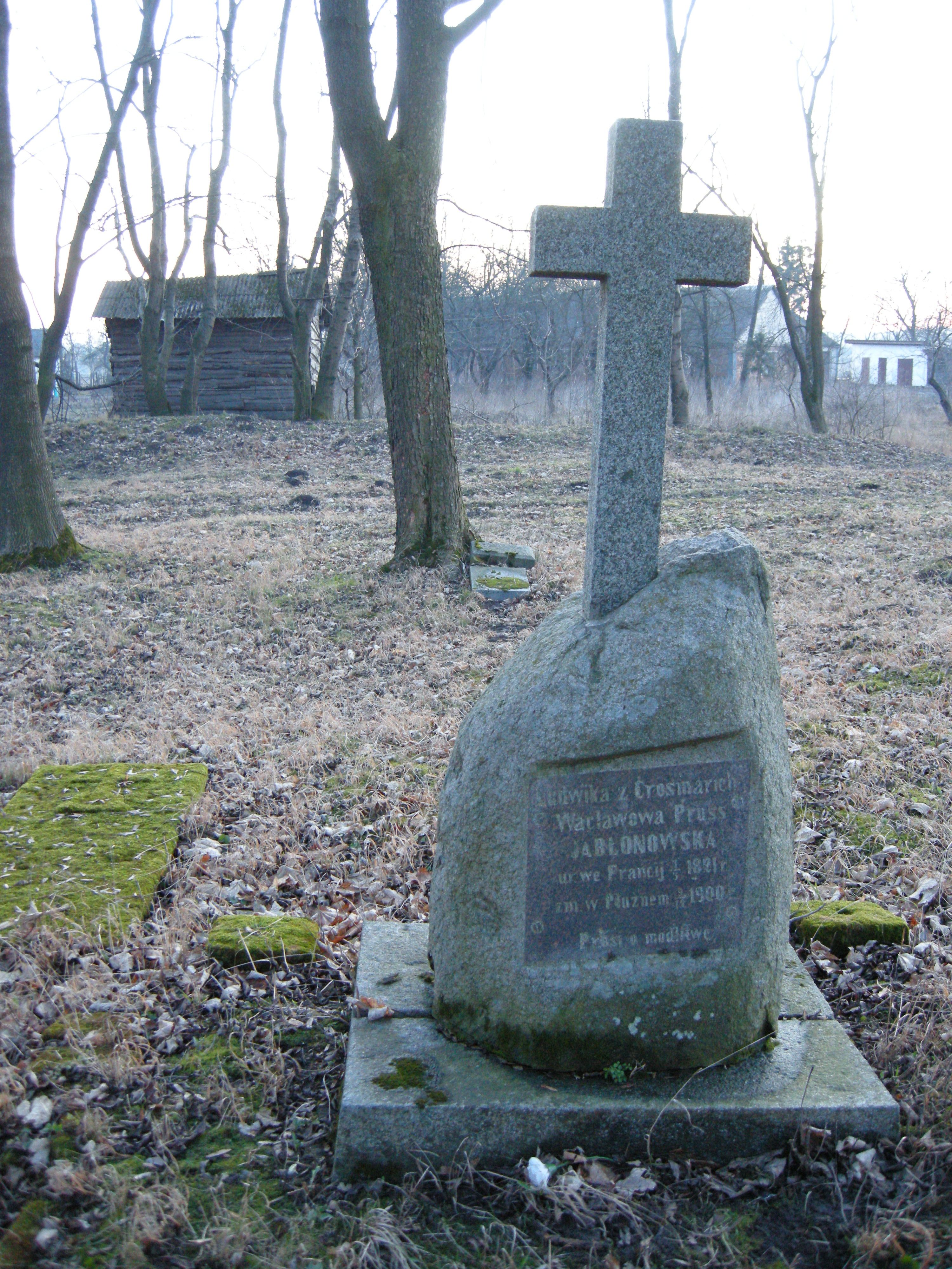 Grave monument to Ludvika Jablonowska (1821 - 1900).